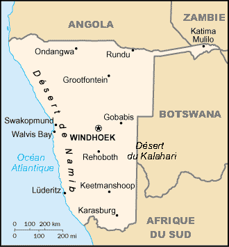 Map in French of Namibia